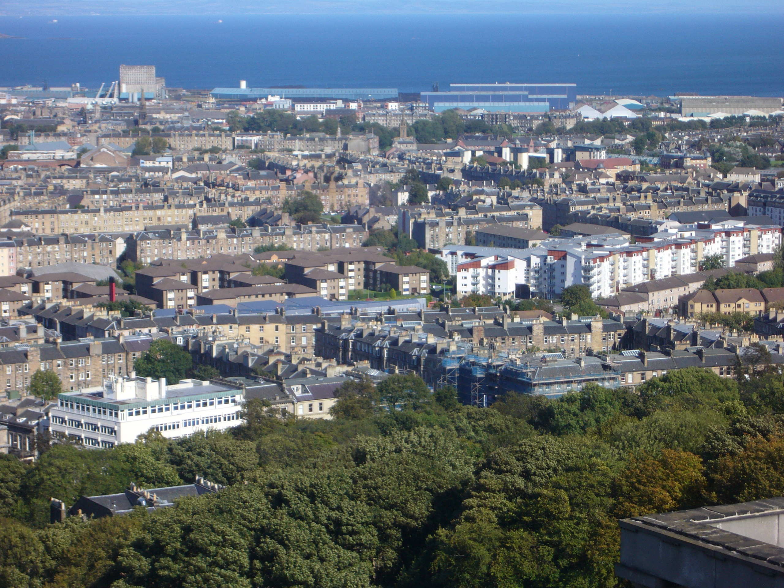 Area between Easter Road and Leith Walk, seen from the Calton Hill. Housing statistics reveal this to be the most densely populated part of Edinburgh.